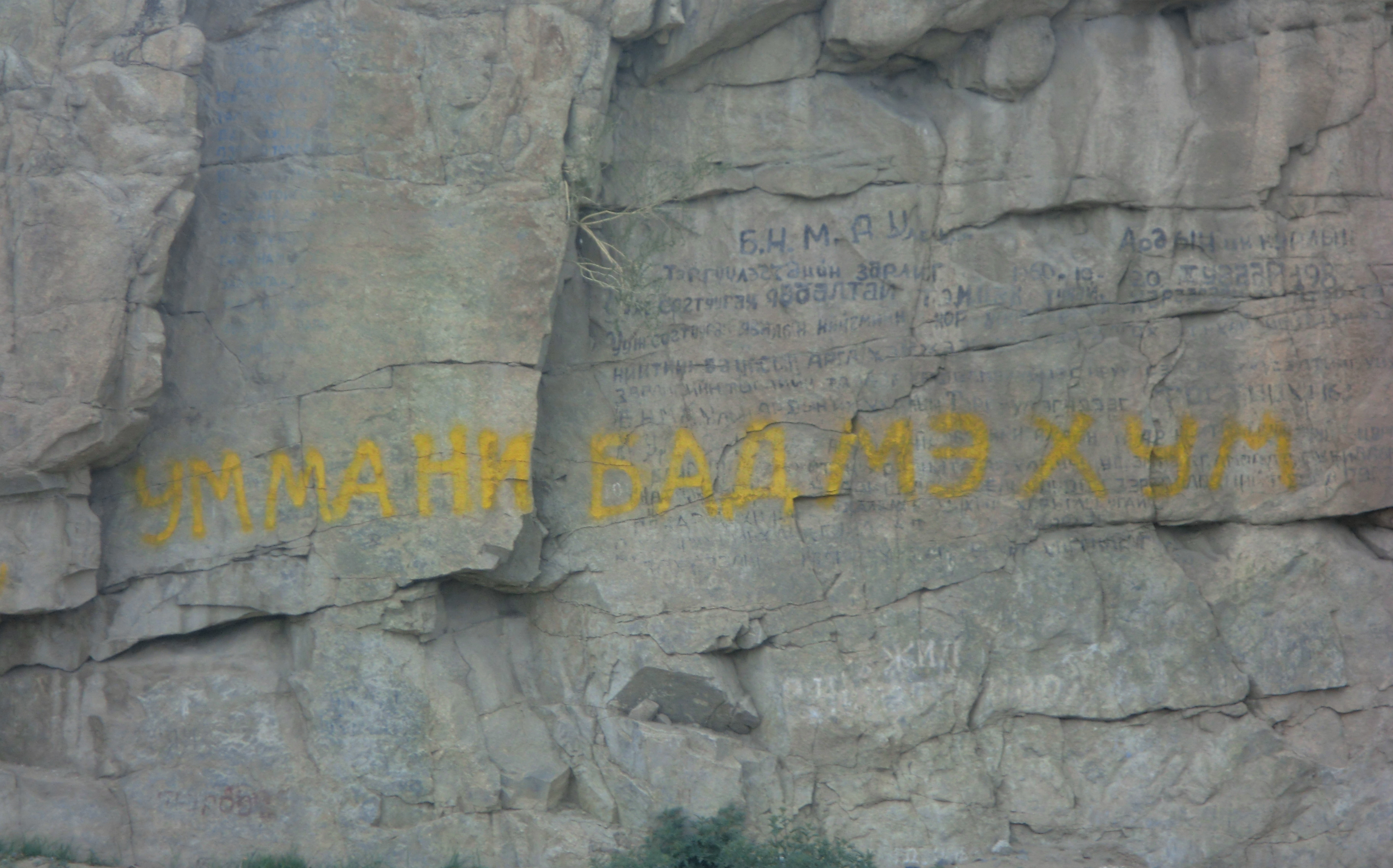 Religious graffiti at the base of Togs Boyant Javklhant Monastery in Uliastai, Zavkhan, Mongolia. Transliterated from Mongolian cyrillic, "Ommani Badme Xom," this is the traditional six-syllable mantra associated with the bodhisattva Avalokiteśvara.